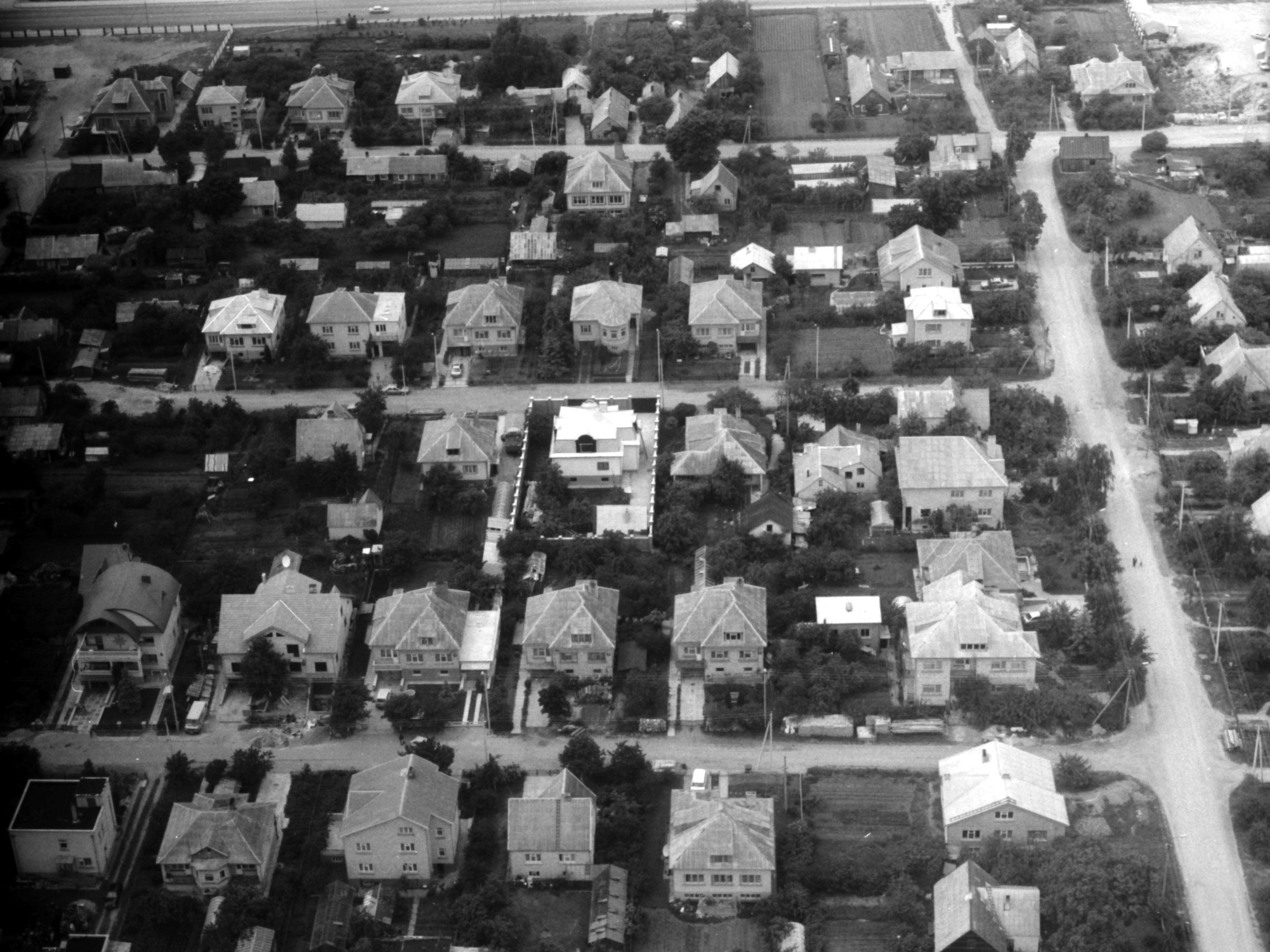 Pabaliai village in Šiauliai, Lithuania